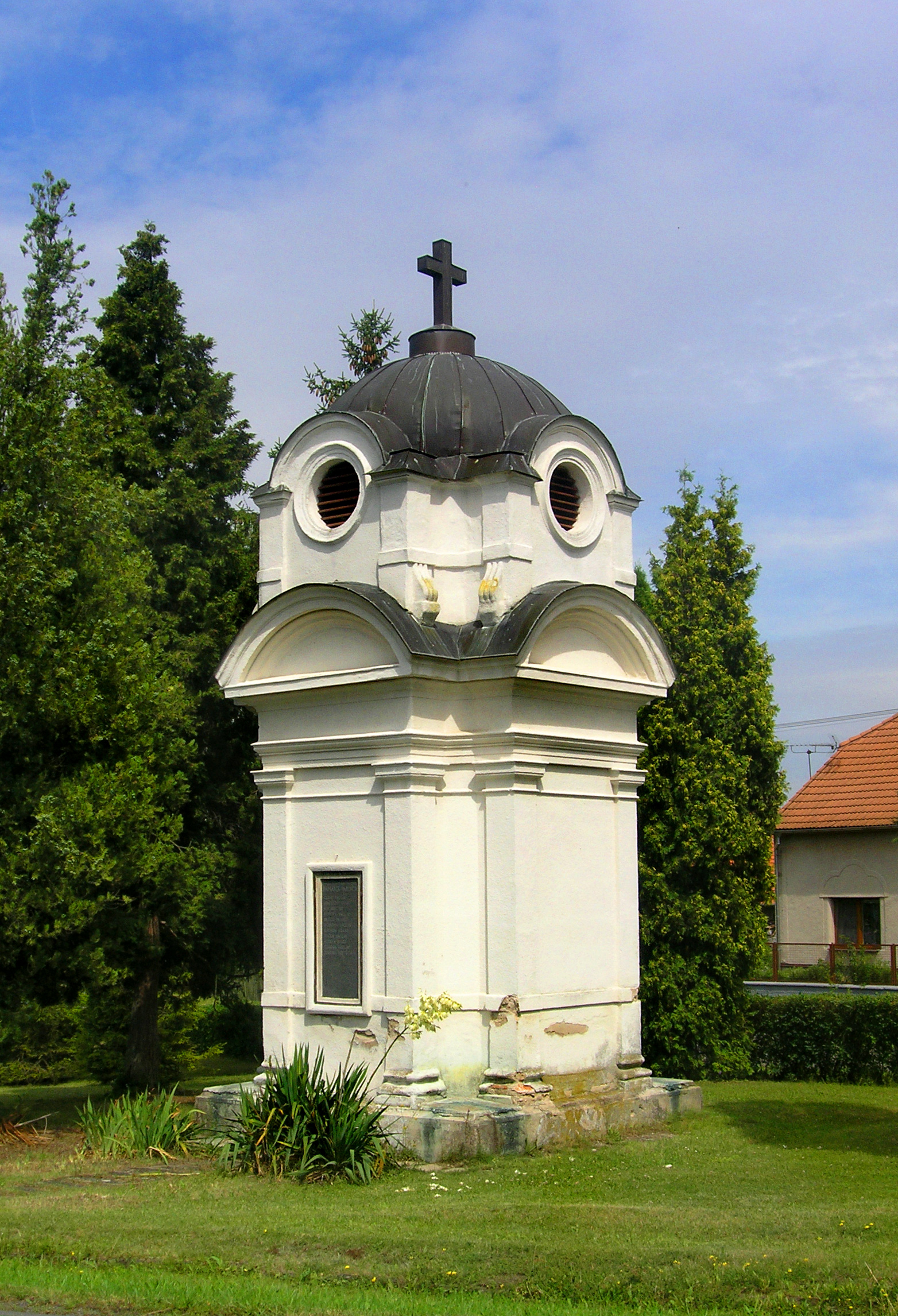 Chapel in Polní Chrčice, Czech Republic